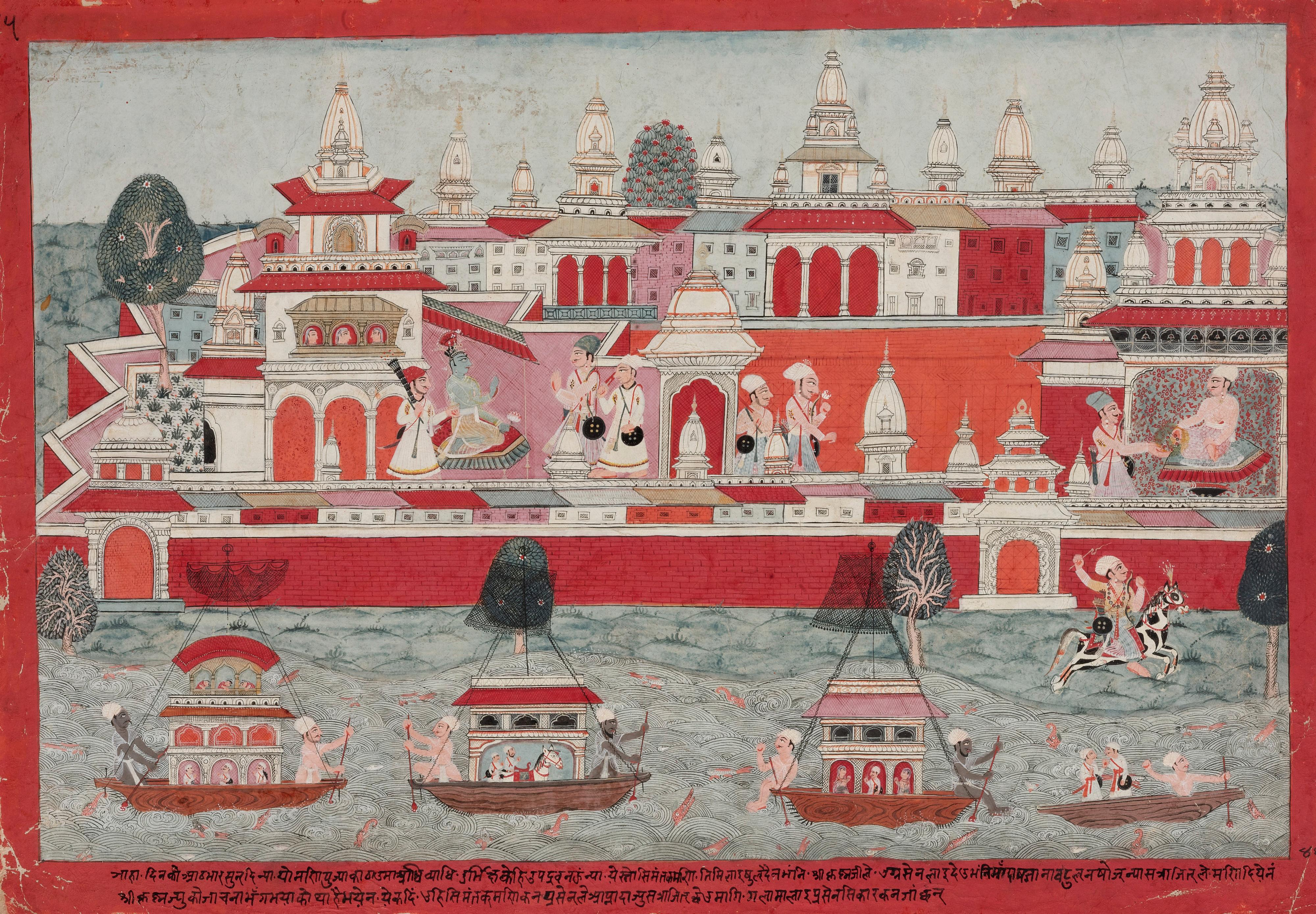 An Illustration to the Bhagavata Purana: Satrajit and Prasena with the Symantaka Mani Estimate: 6,000 - 8,000 USD LOT SOLD. 6,250 USD (Hammer Price with Buyer's Premium) Opaque watercolor on paper image 12 1/4 by 18 5/8 in. (31.2 by 47.3 cm) folio 13 7/8 by 19 7/8 in. (35.3 by 50.5 cm) unframed circa 1750 Nepal